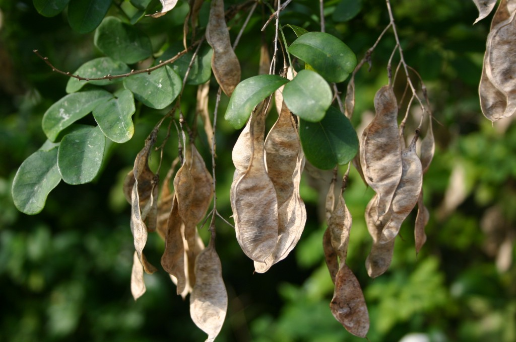 Seed pods of a Natal laburnum